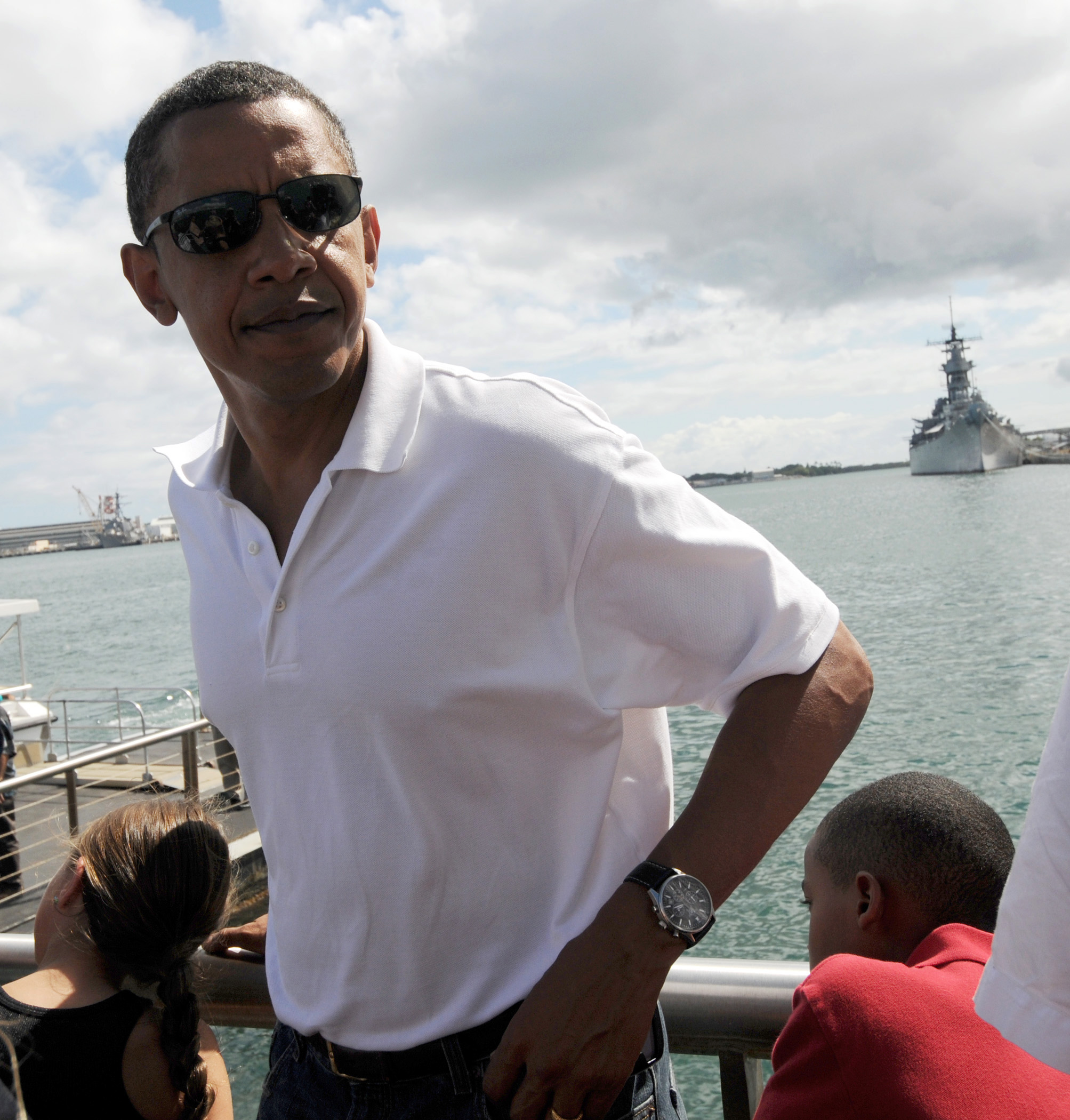 PEARL HARBOR, Hawaii (Aug. 14, 2008) Sen. Barack Obama, D-Ill., visits the USS Arizona Memorial. Obama was in Hawaii while on vacation with his family.